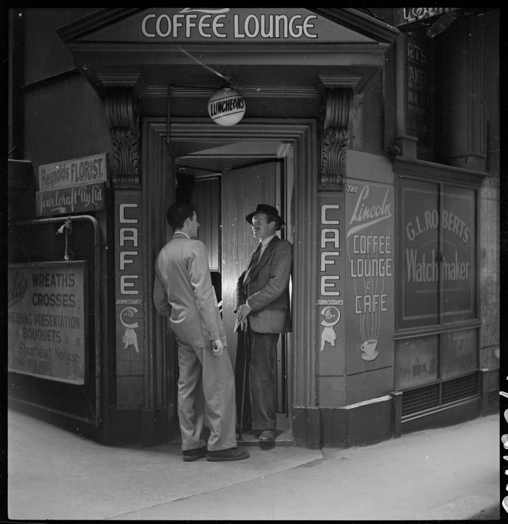 The Lincoln Coffee Lounge is said to be the birth place of the "Sydney Push" movement in its early days, just after the war. A popular meeting place for artists & writers, it comprised a mixture of university students, lecturers, Bohemians & Libertarians. Format: Photograph Find more detailed information about this photographic collection: .au/item/itemDetailPaged.aspx?itemID=111528 Search for more great images in the State Library's collections: .au/search/SimpleSearch.aspx From the collection of the State Library of New South Wales